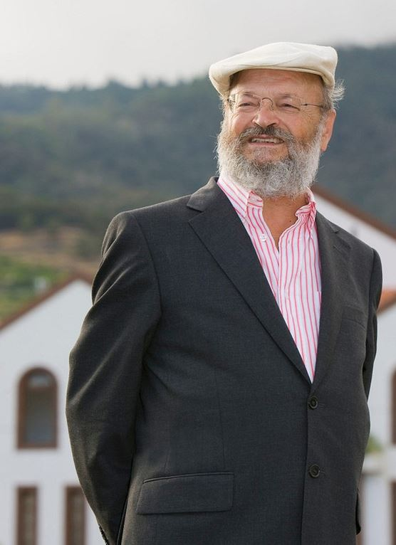 Martins Júnior